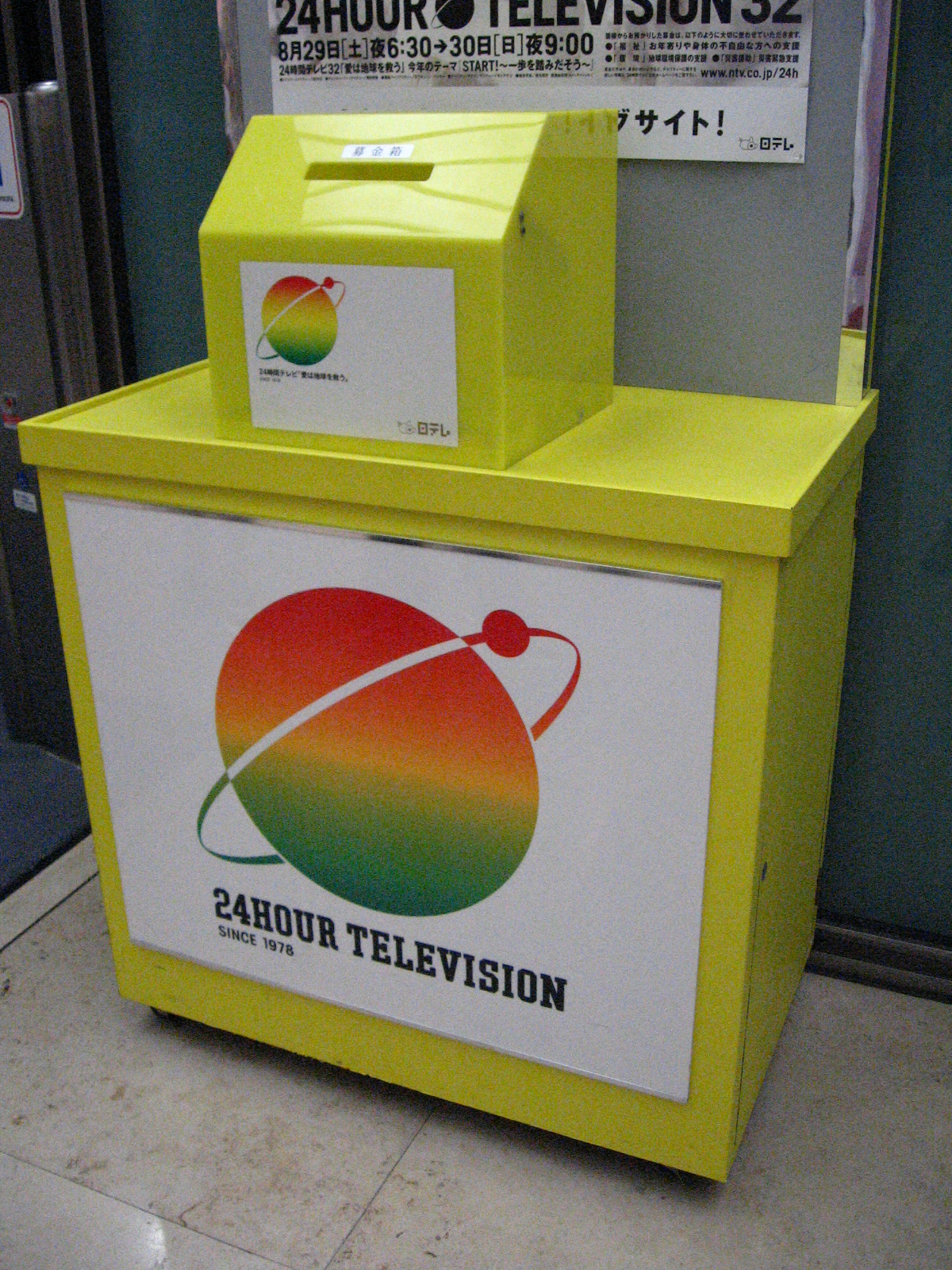 Collecting box on "24HOUR Television"